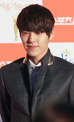 Kim Woo-bin on Seoul Music Awards Red Carpet, 31 January 2013